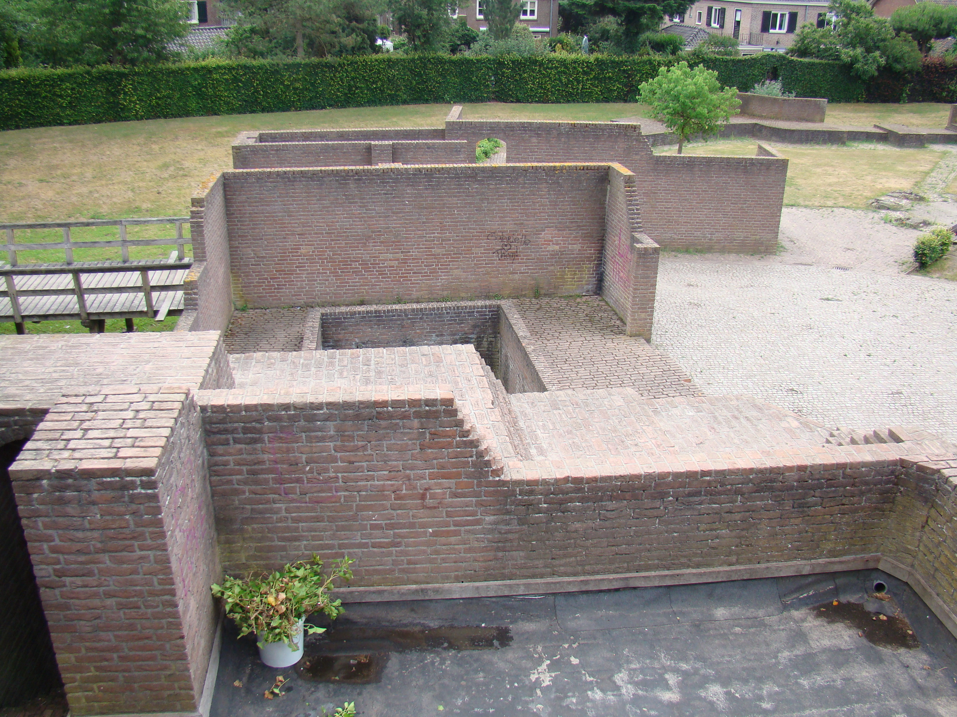 Castle Heusden, Netherlands